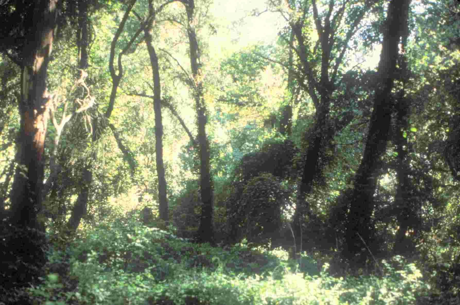 Cosumnes River Preserve — riparian woodlands habitat. In the eastern Central Valley — Sacramento County, California.